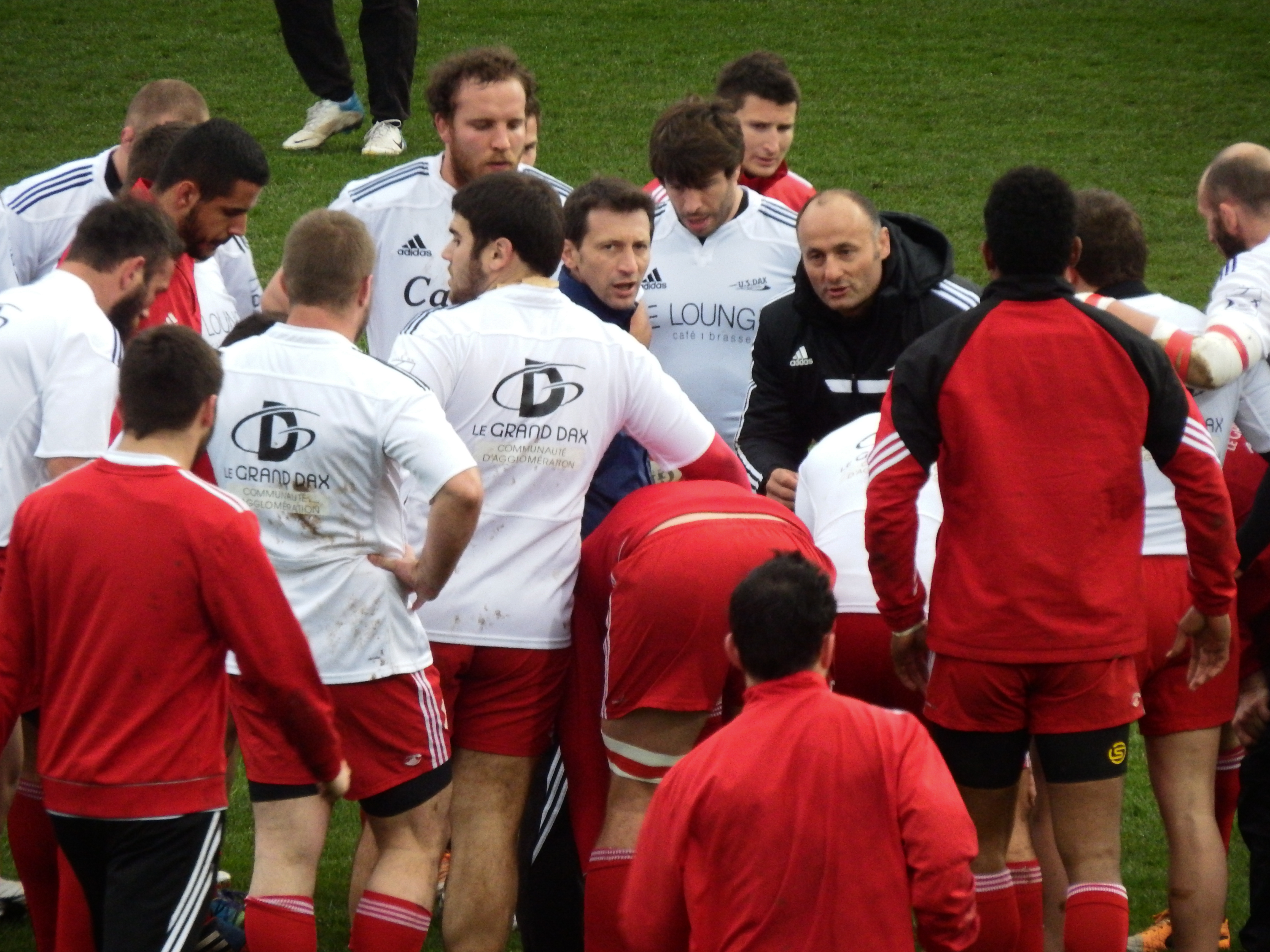 2014–15 Rugby Pro D2 season — 28 March 2015, Jean Alric stadium. Match between: Stade Aurillacois Cantal Auvergne — US Dax